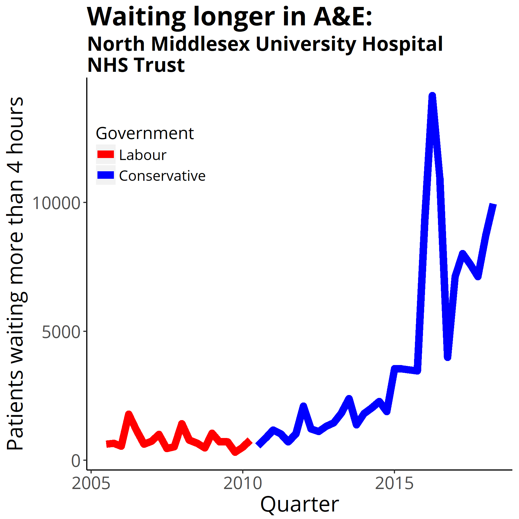 Four-hour target in the emergency department quarterly figures from NHS England Data from